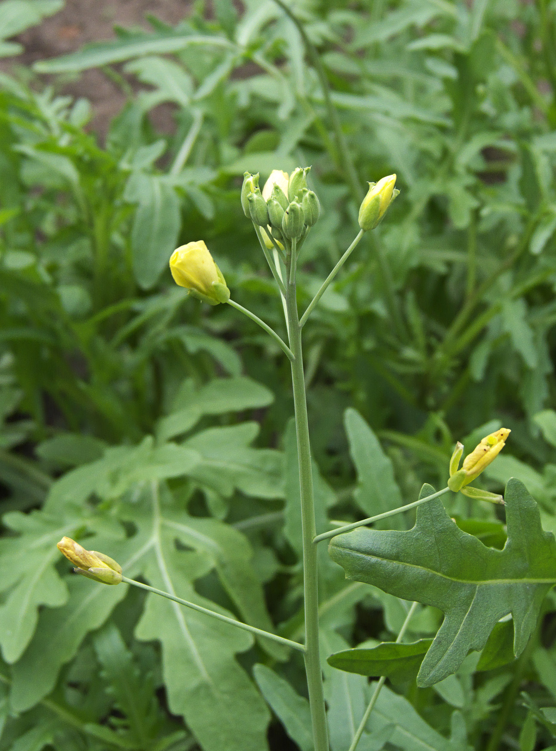 Diplotaxis tenuifolia inflorescens